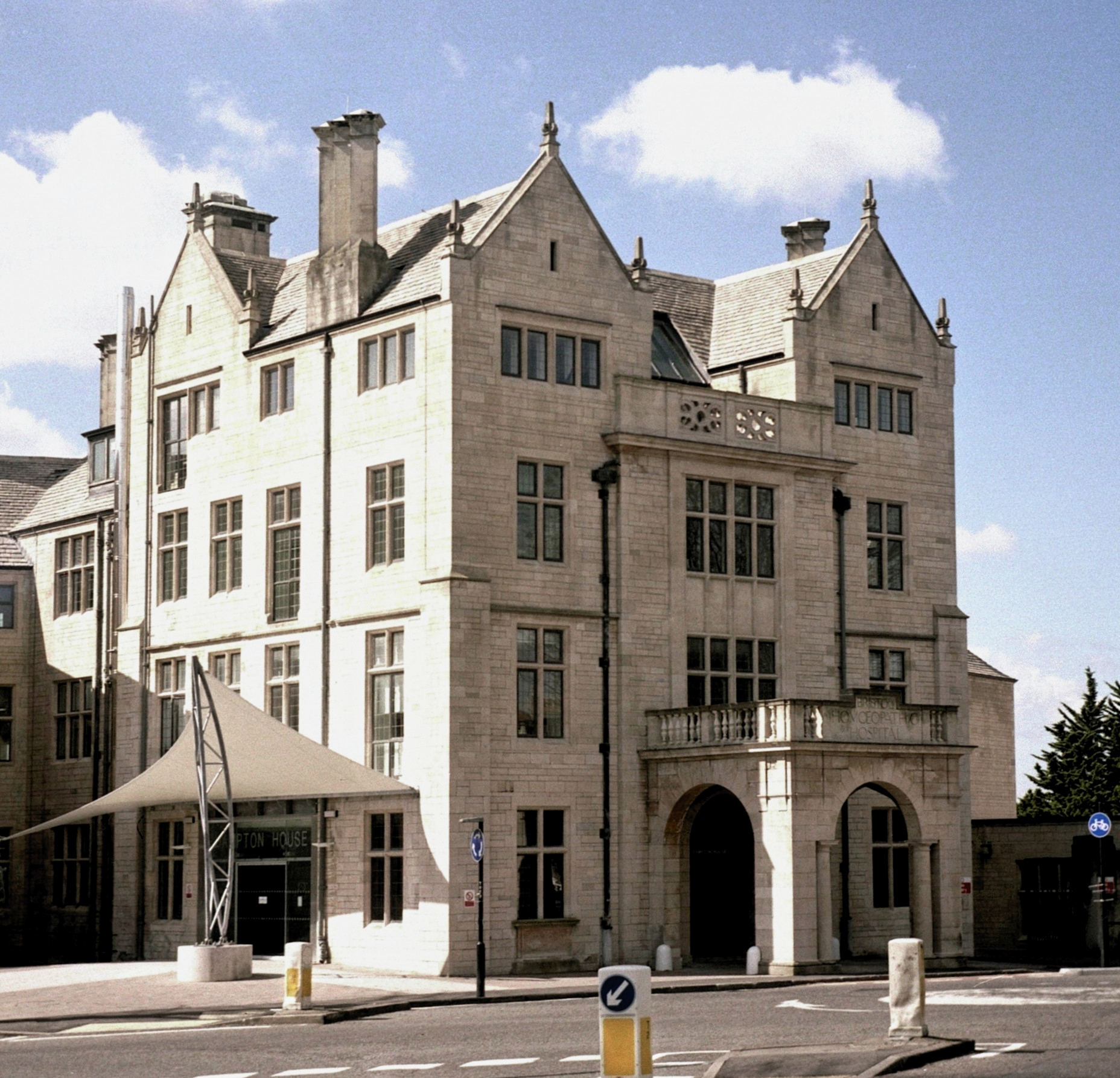 Hampton House - formerly Bristol Homeopathic Hospital - stands at the point where St Michael's Hill becomes Hampton Road.